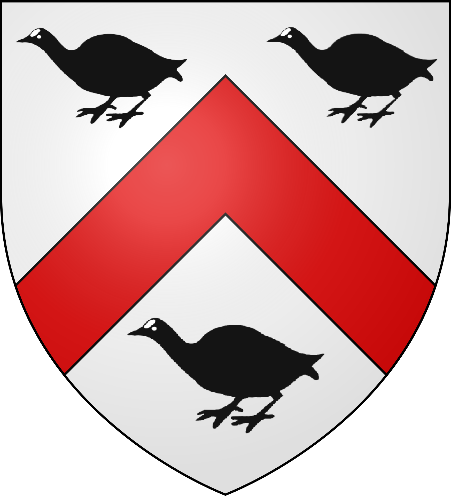 Arms of Southcott of Indio in the parish of Bovey tracey and of Mohuns Ottery, Luppit, both in Devon: Argent, a chevron gules between three coots sable (Pole, Sir William (d.1635), Collections Towards a Description of the County of Devon, Sir John-William de la Pole (ed.), London, 1791, p.501)